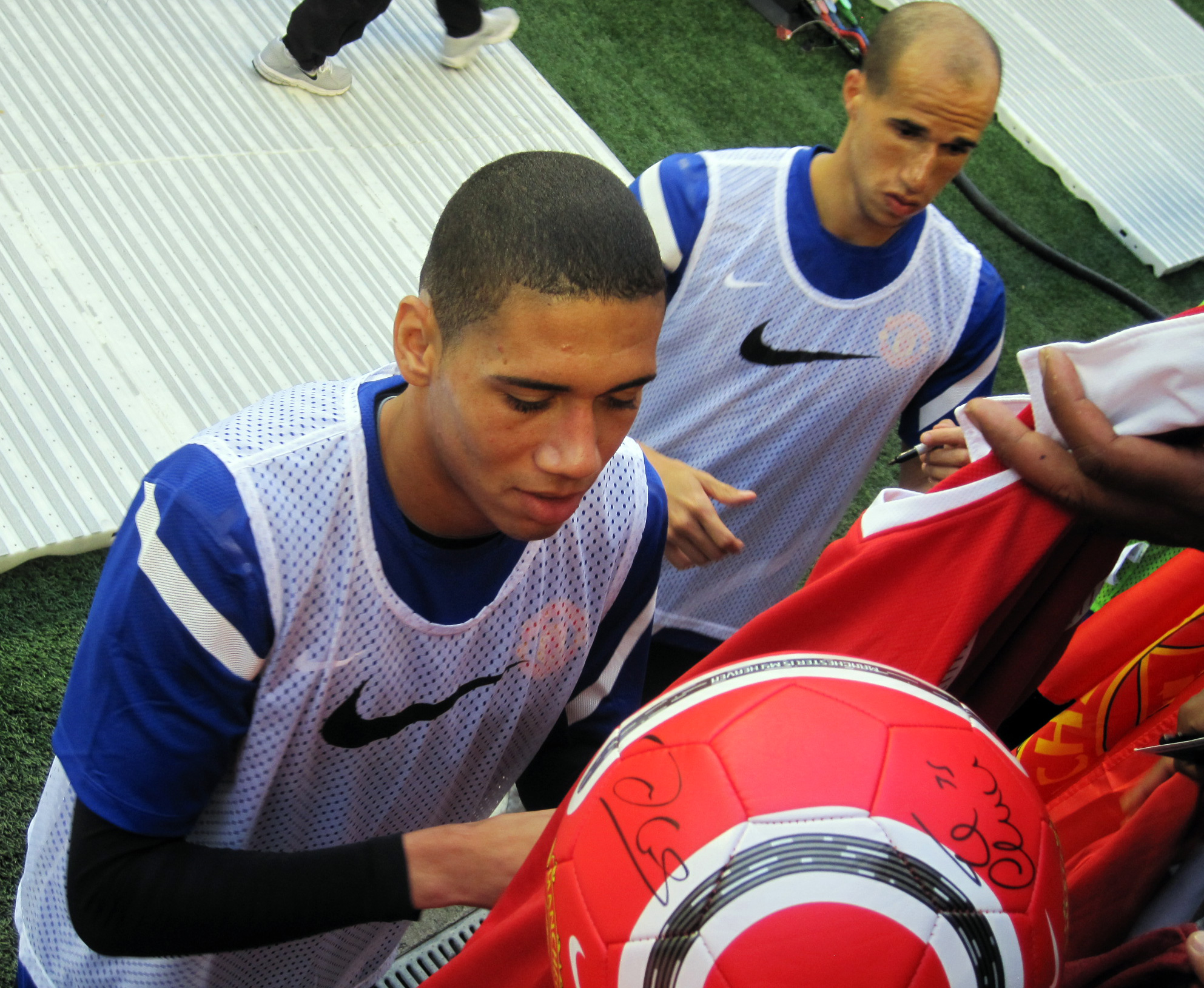 Chris Smalling and Gabriel Obertan in Seattle